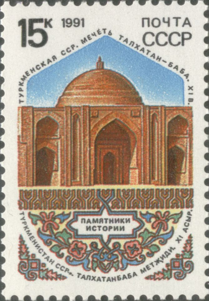 Stamp of USSR: Talkhatan-baba Mosque, Turkmenistan (11 c.). Issue: Monuments of domestic history